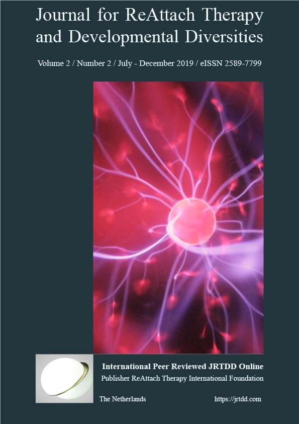 journal's cover page